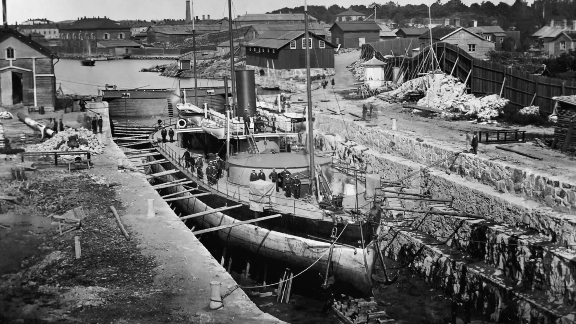 Charodeika-class monitor Rusalka in Hietalahti shipyard, 1868.